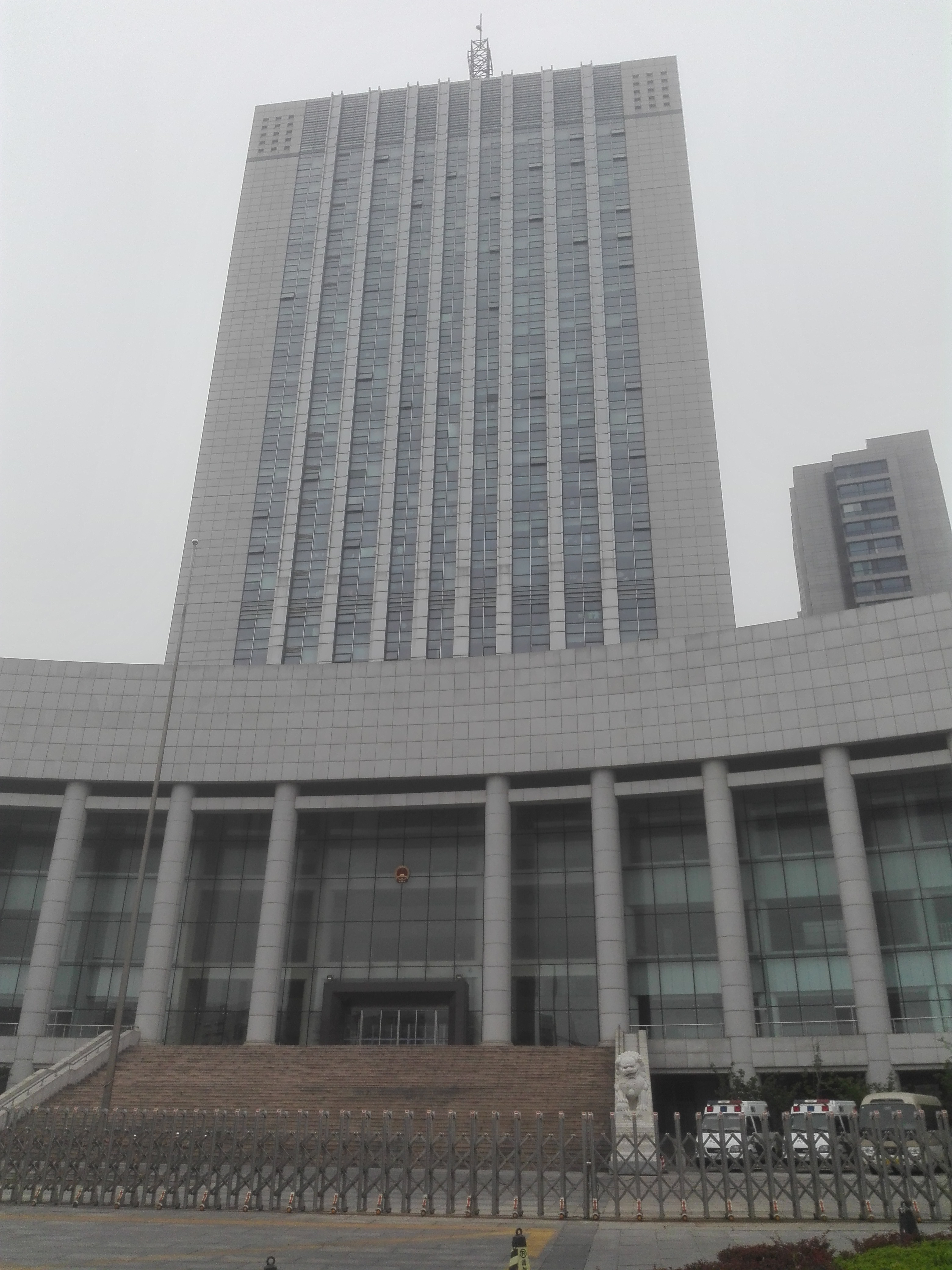 Qingdao Intermediate People's Count